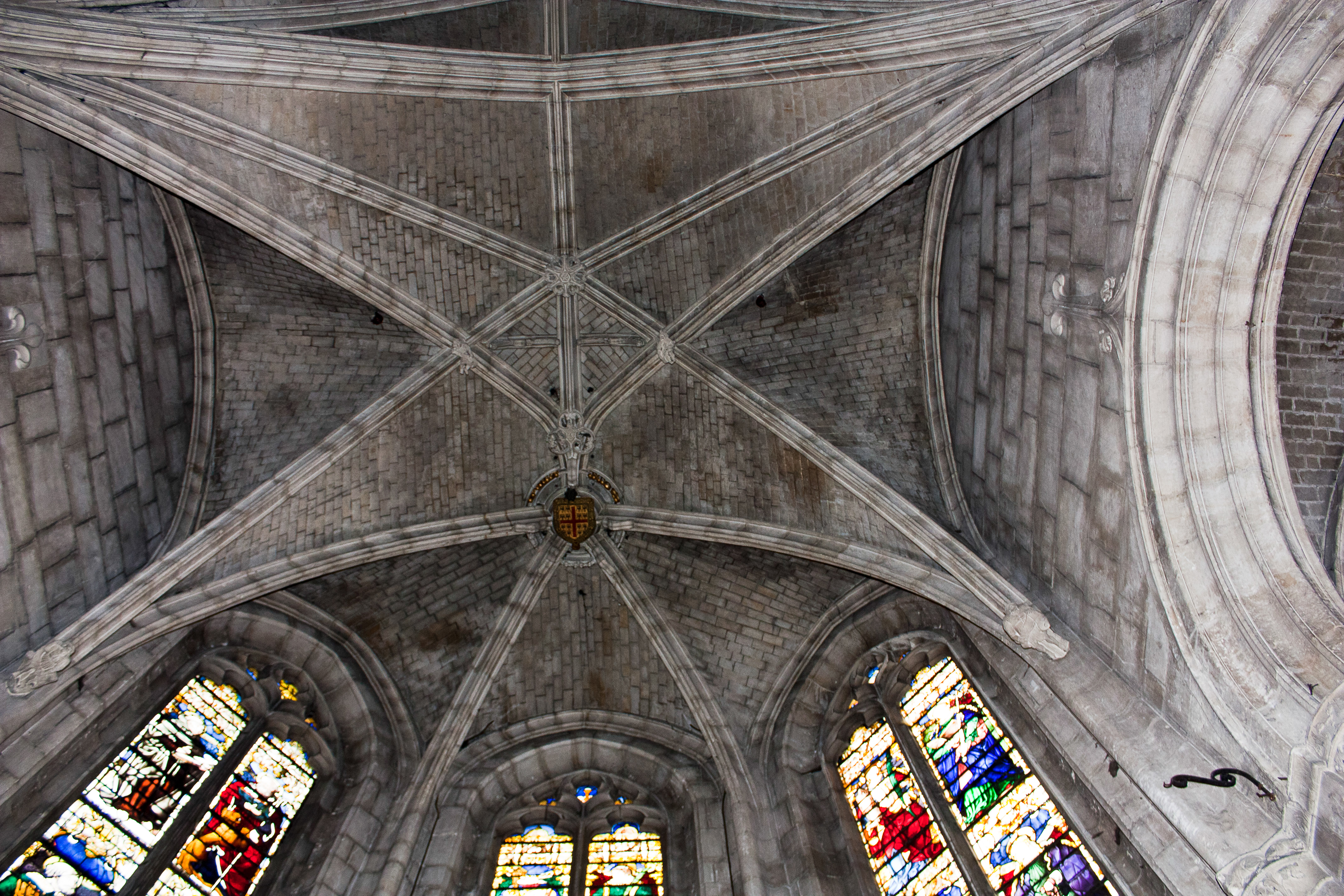 Vaults of the apse and the choir.